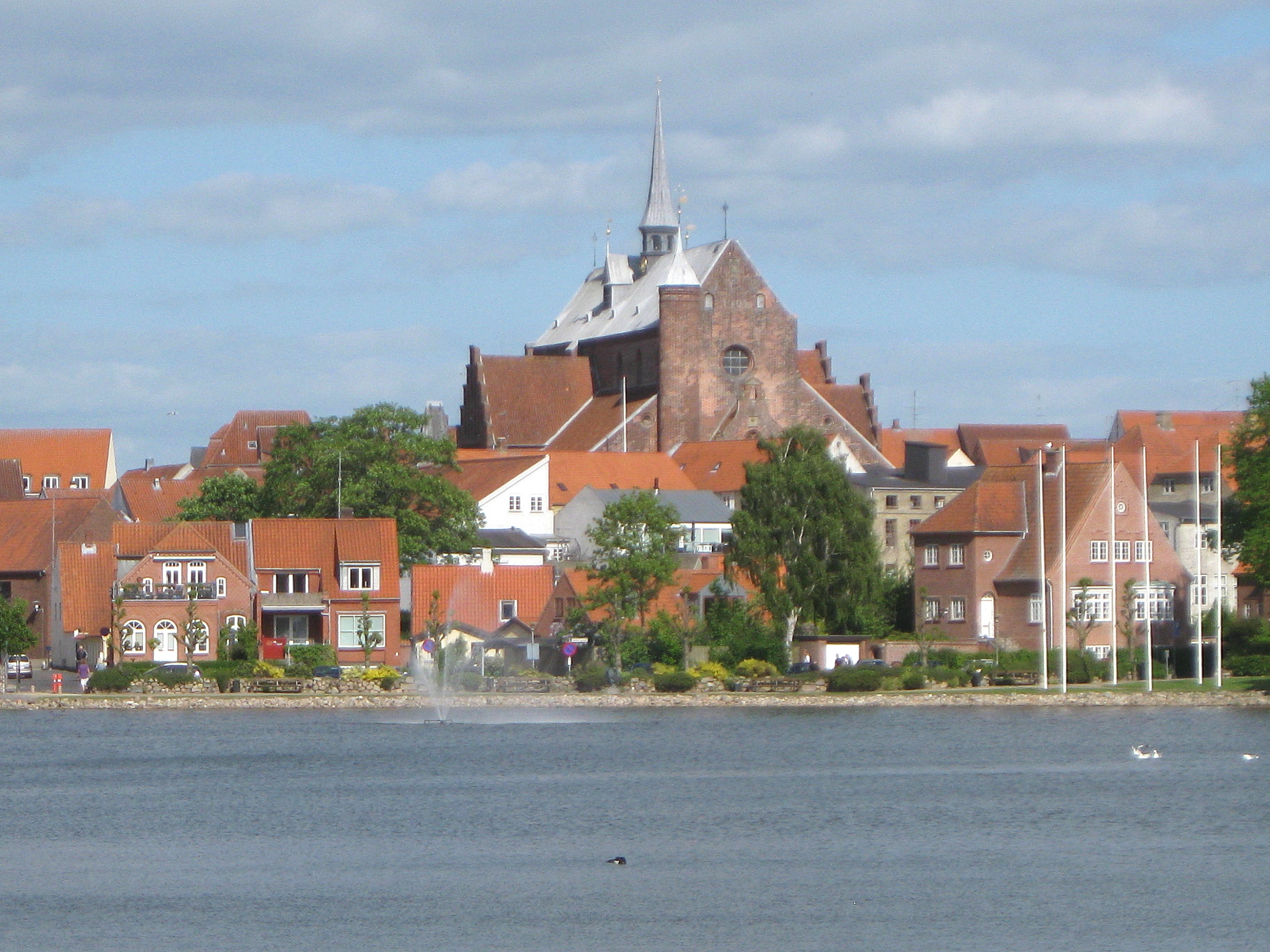 The cathedral "Haderslev Domkirke" in the town "Haderslev". The town is located in Southern Jutland, Denmark.